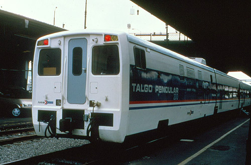 The Northwest Talgo experimental train at Portland Union Station in August 1994